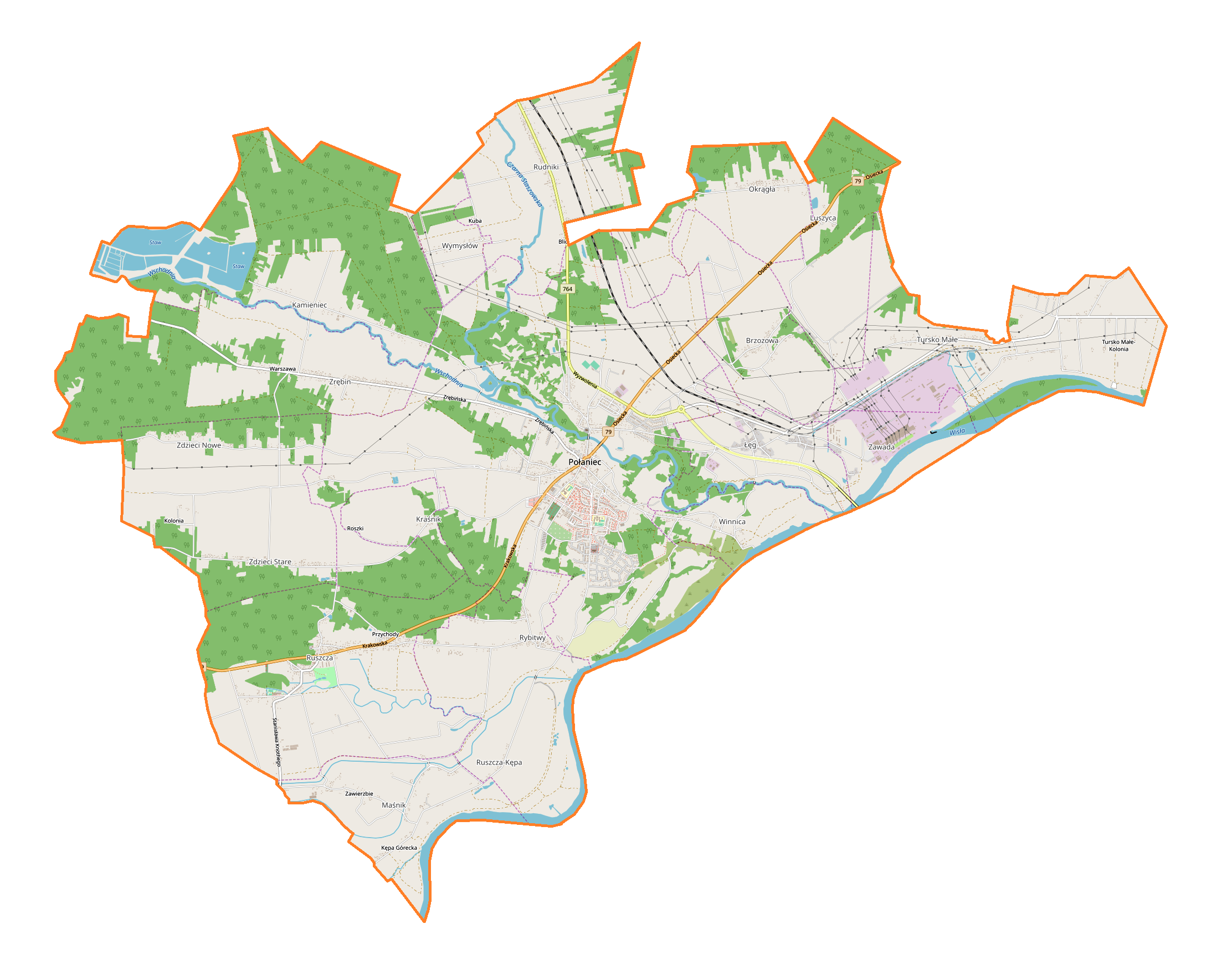 Location map